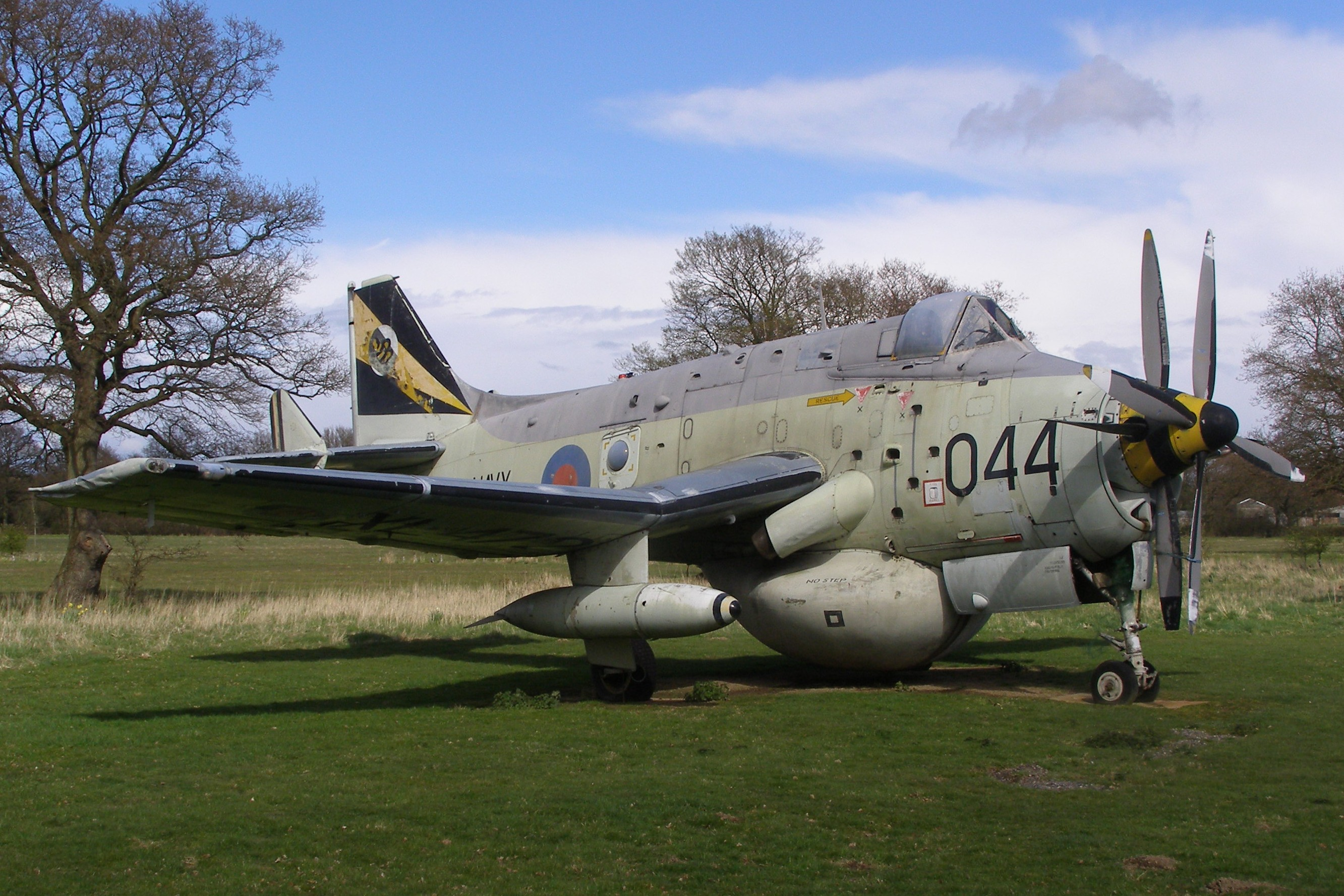 Fairey Gannet AEW3 at the Gatwick Aviation Museum, Surrey, England (Moved 2014 to Horizon Services)